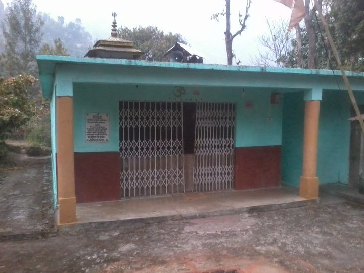 Parbateyswar Shivalaya Mandir one of the holiest and oldest temple of Tareythang Village